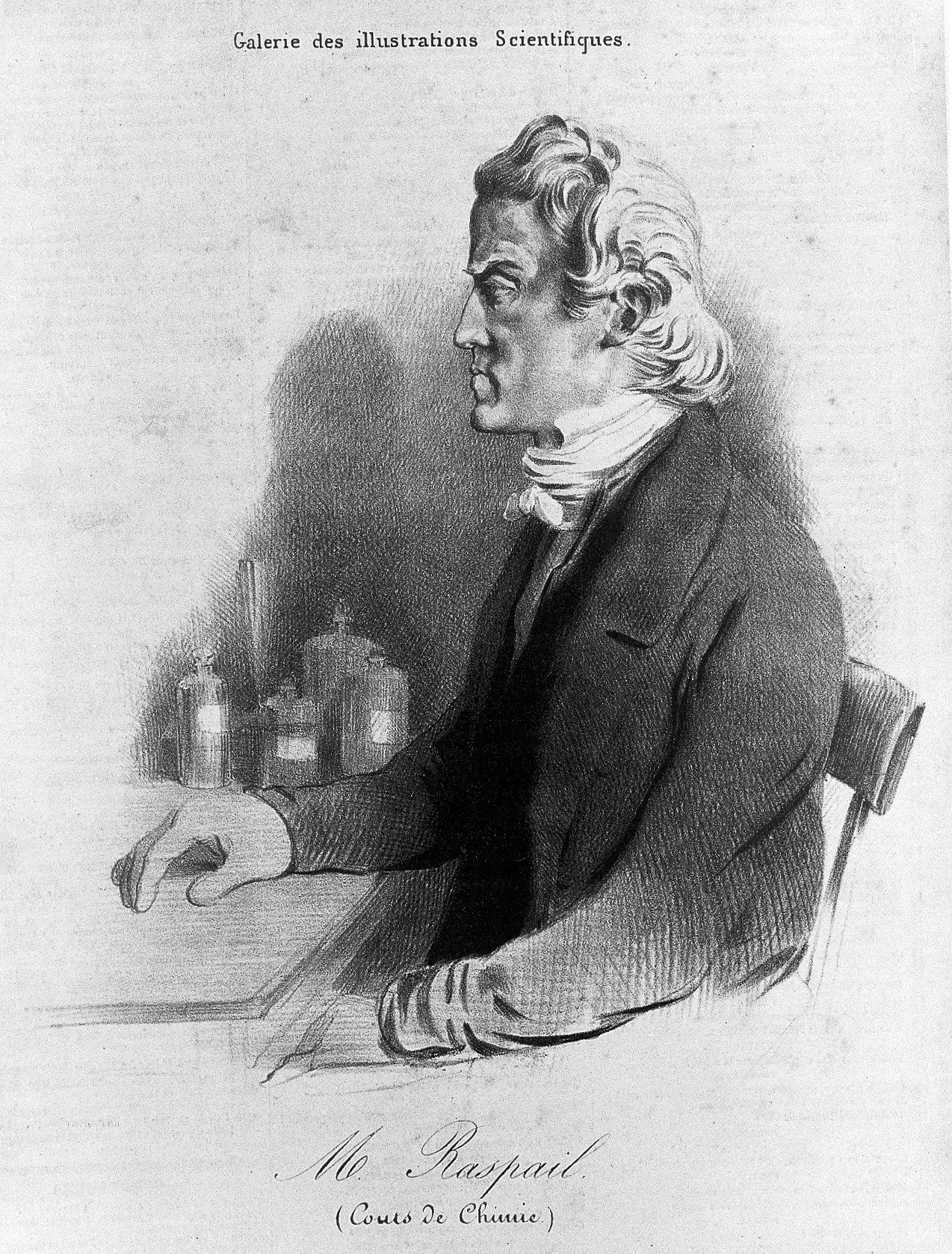 Iconographic Collections